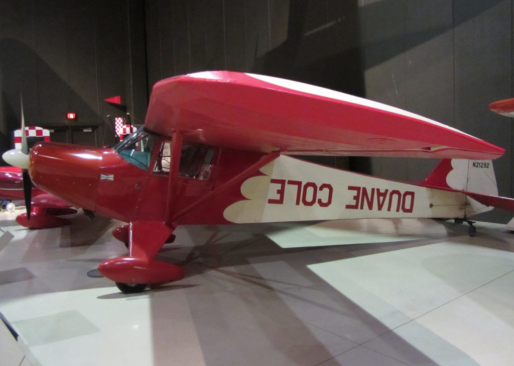 DuaneColeTaylorcraftBF-50